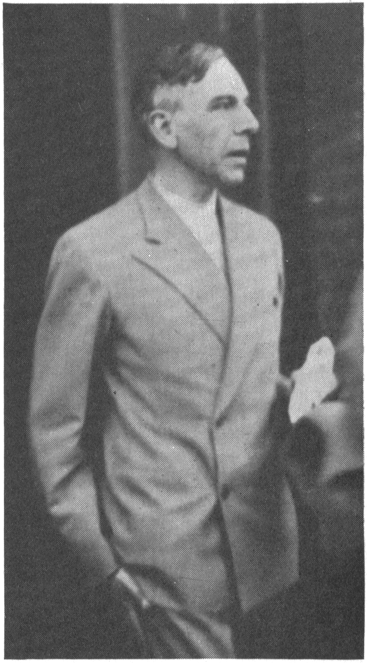 The Norwegian writer Ronald Fangen photographed by the police guard on June 24, 1946, leaving Ullevål Hospital, where he had been held prisoner by the Germans. Norsk (bokmål): Den norske forfatteren Ronald Fangen fotografert av politivakten 24. juni 1946 idet han forlot Ullevål sykehus, hvor han var blitt holdt som fange av tyskerne.